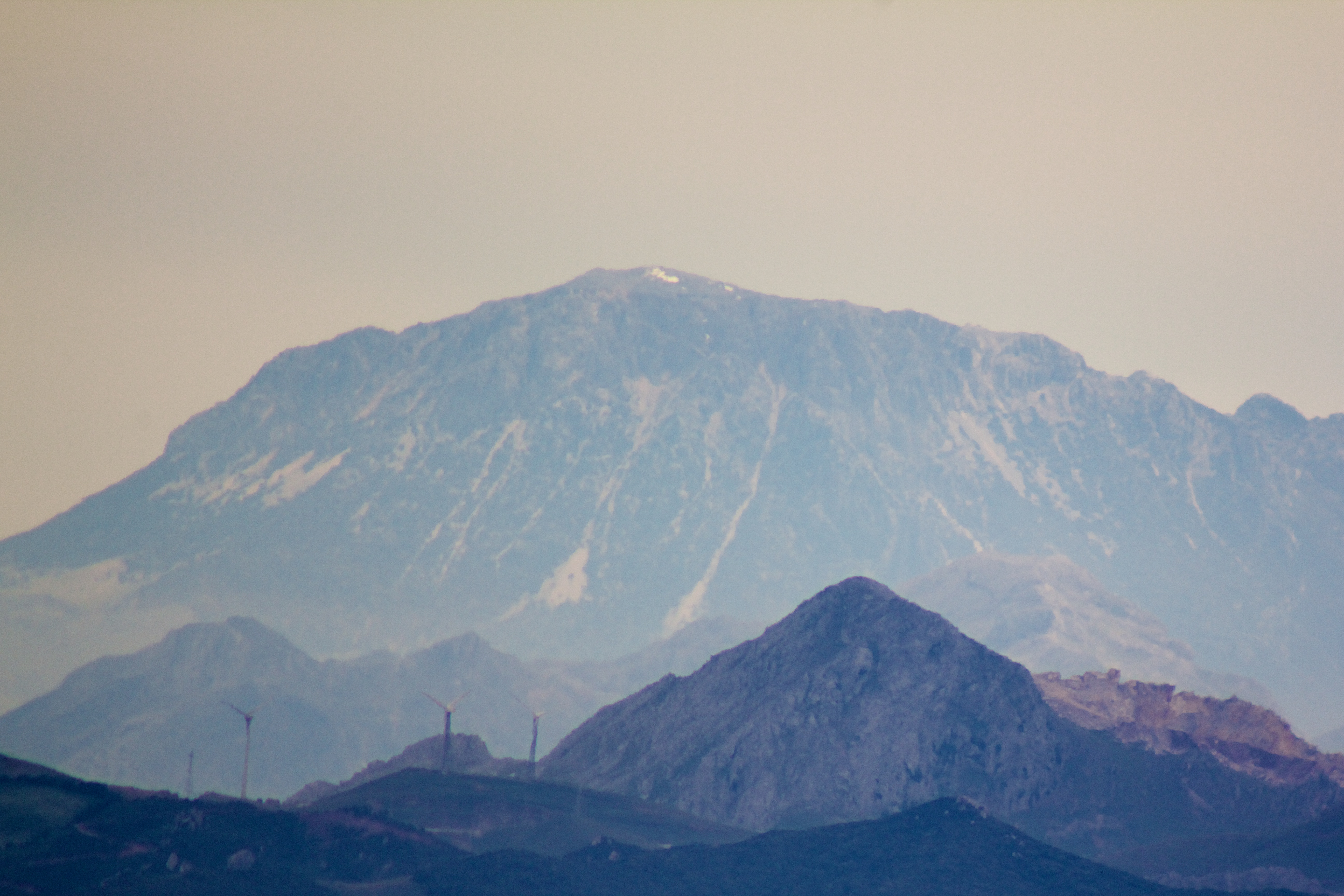 Snow capped summit of Djbel Kelti, Morocco, from Spain.